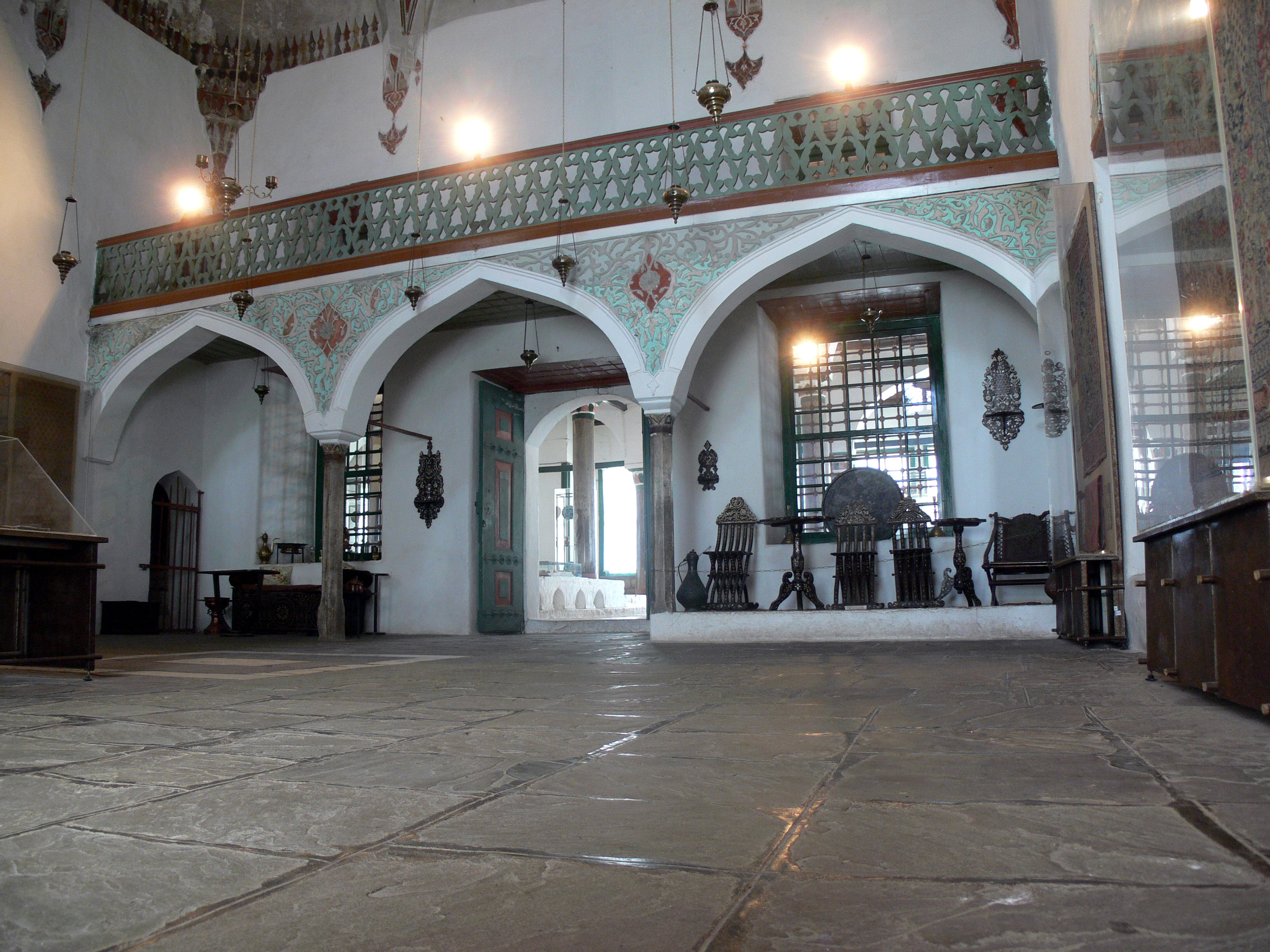 Aslan-Moschee in Joannina